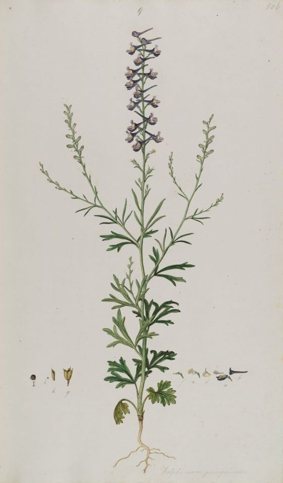 Image from Flora Graeca, presumably by Ferdinand Bauer, depicting Delphinium peregrinum